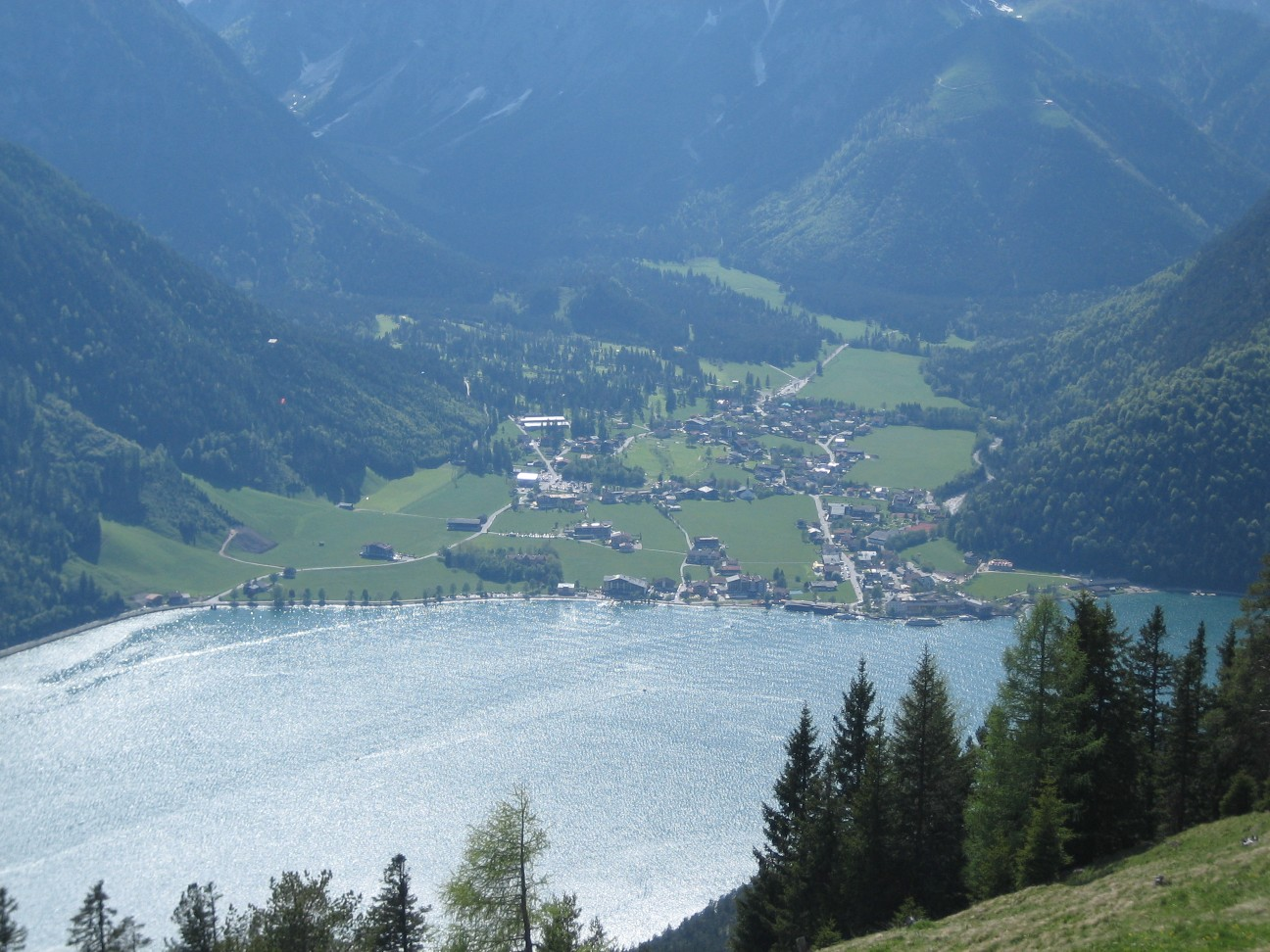 Pertisau, Austria